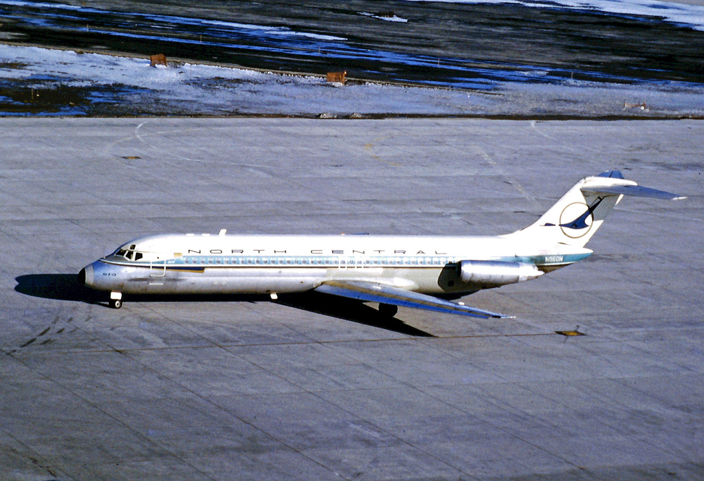 Douglas DC-9-31 N960N of North Central Airlines at Toronto (Malton) Airport in 1971